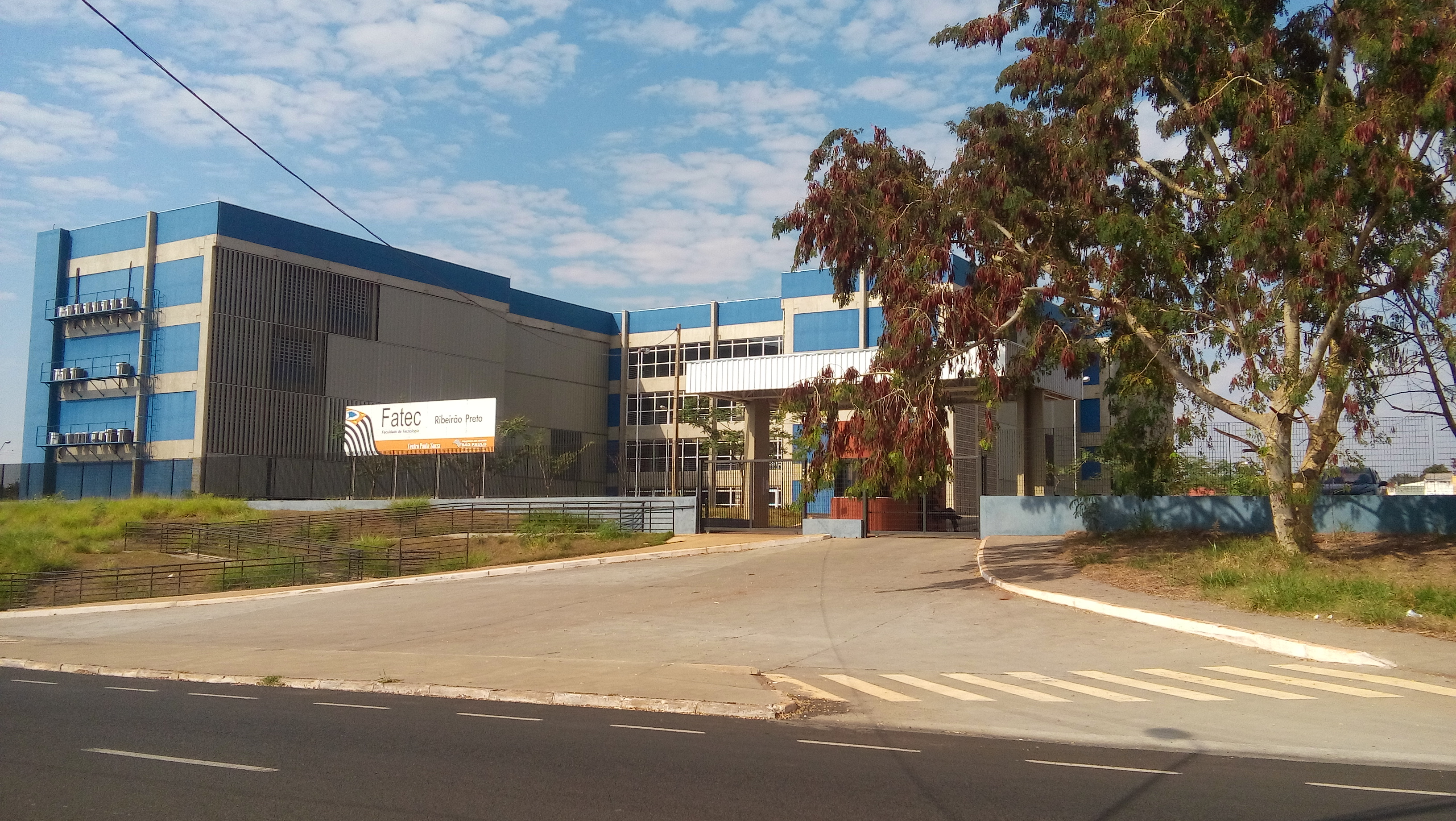 Fatec - University of São Paulo Technology unit Ribeirao Preto